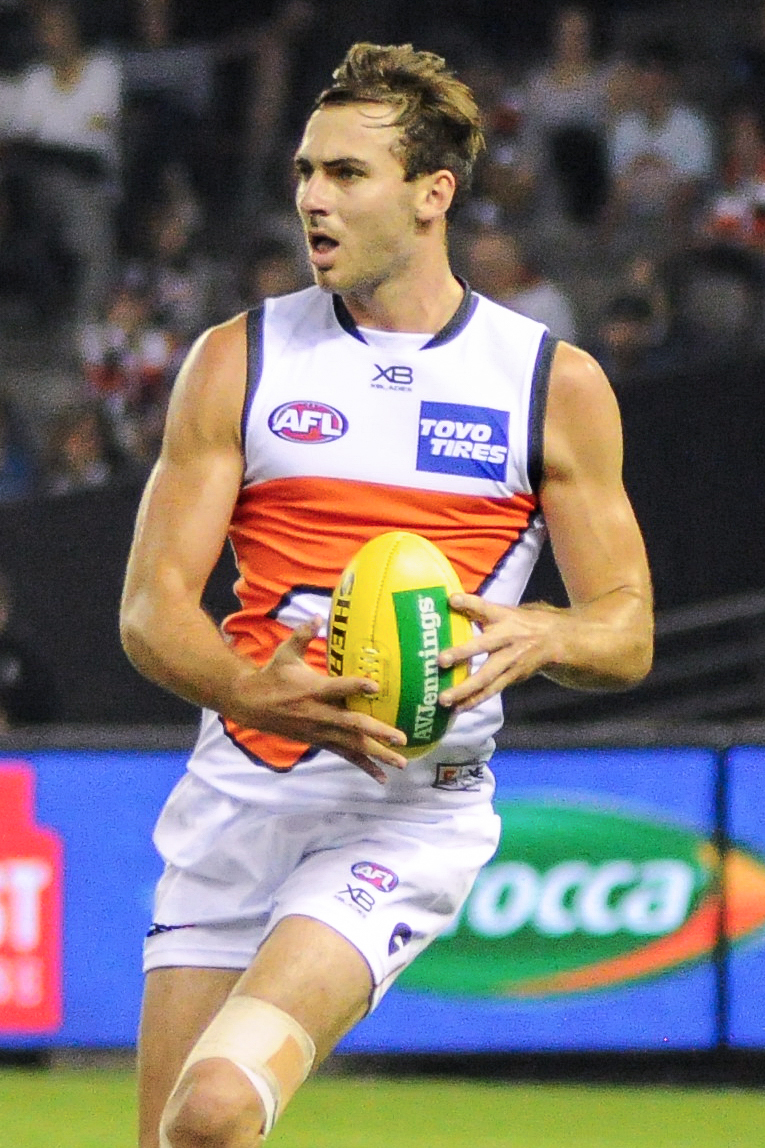 Jeremy Finlayson during the AFL round five match between St Kilda and Greater Western Sydney on 21 April 2018 at Etihad Stadium in Melbourne, Victoria.